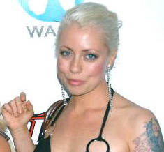 Lorelei Lee at Digital Playground party for movie Island Fever 4, September 17 2006